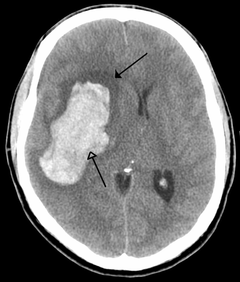 A intra parenchymal bleed with surrounding edema